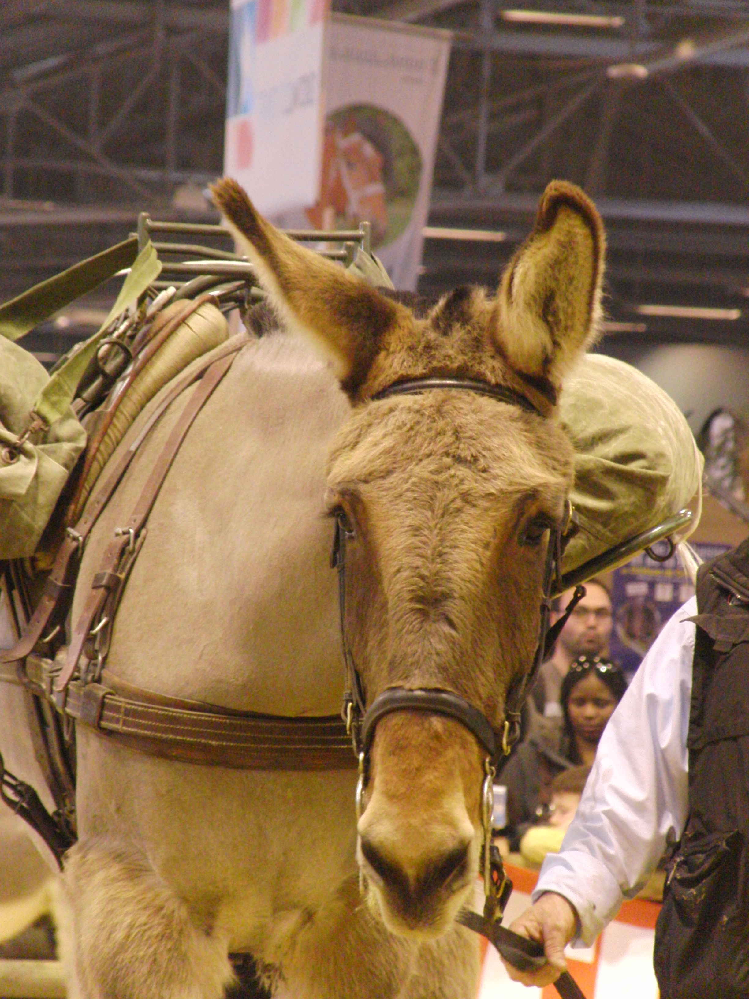 A Poitevin mule's head at the 2014 International Agriculture Show in Paris, France